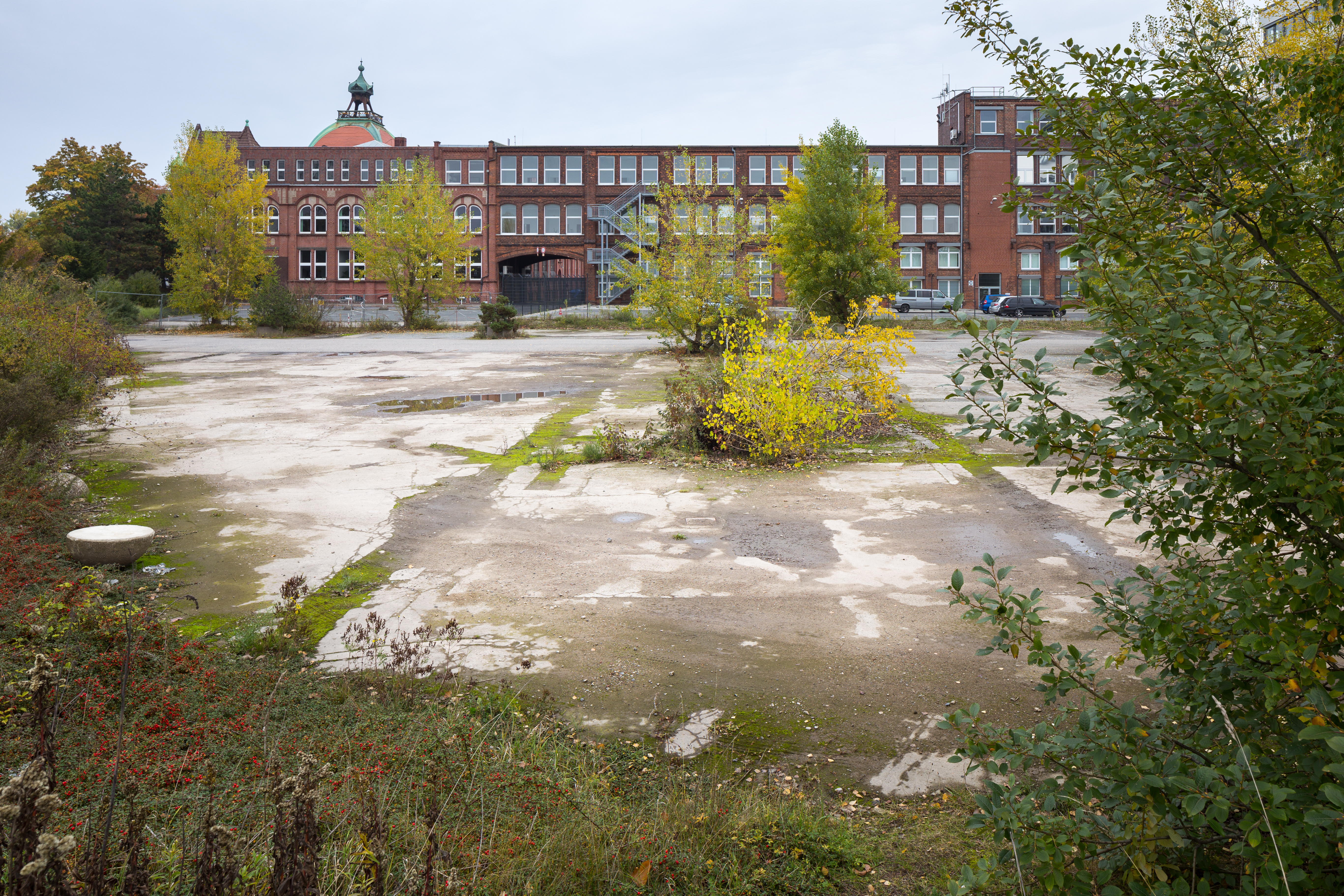 Site of the former locomotive turning plant of former Hanomag company, now used as a parking area, located at Hanomagstrasse in Linden-Sued quarter of Hannover, Germany.